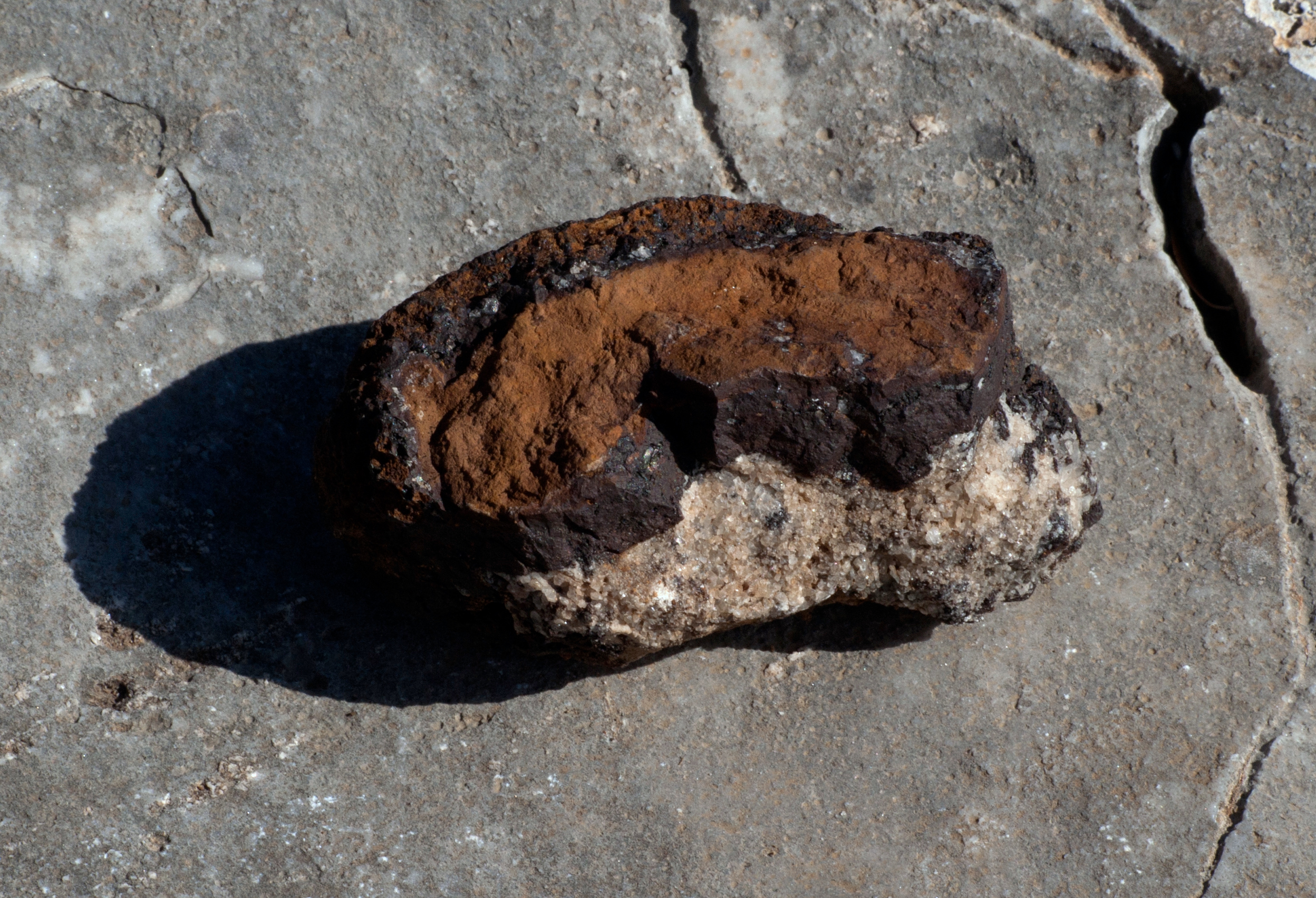 Iron ore, Marmaritsa, Rhodope, Thrace, Greece.